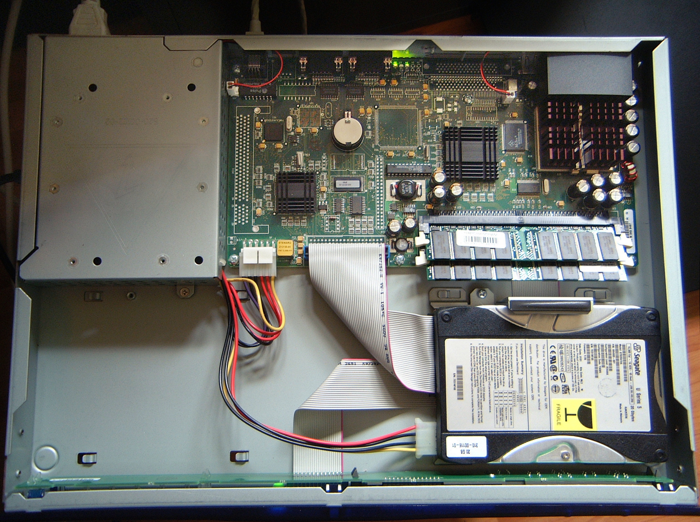 Cobalt RaQ 3 open